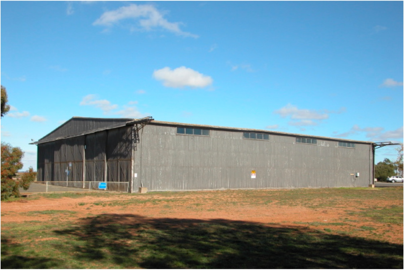 Title: Bellman hangar, Port Pirie Airport, South Australia.